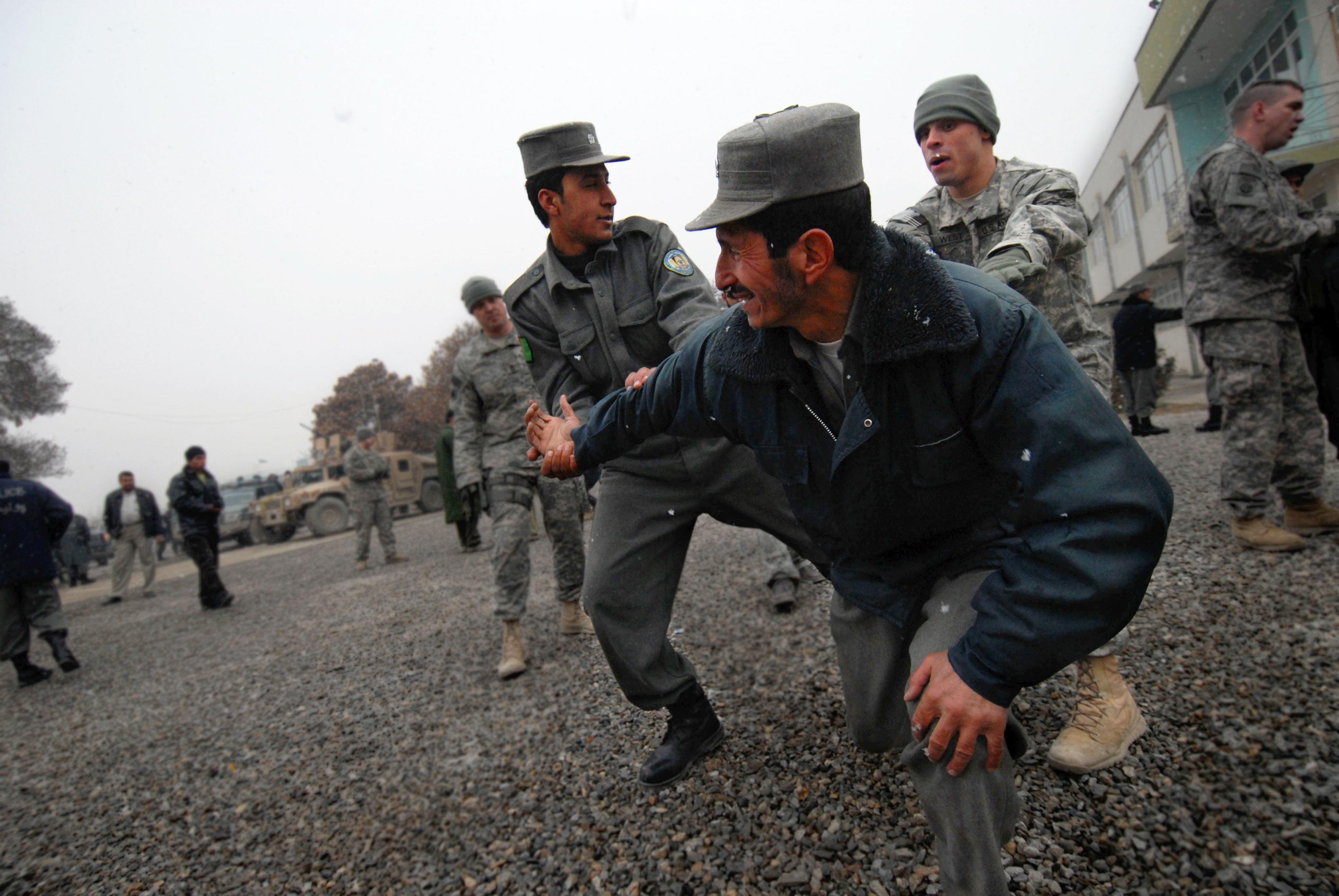 Sgt. Aaron West of Headquarters and Headquarters Company, 33rd Infantry Brigade Combat Team, Combined Joint Task Force Phoenix VIII, gives combatives instruction to two Afghan National Police officers. The combatives training was part of a week long training period Police Mentor Team One, Regional Police Advisory Command-Kabul, organized for ANP officers and NCOs of Zone One, Kabul, Afghanistan. U.S. Army photo by Spc. Luke S. Austin, photojournalist